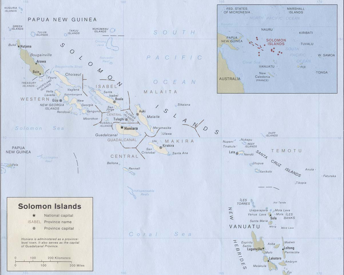 Map of the Solomon Islands as of 1989. Province names are included, except for two new provinces as of 1995: the Rennell and Bellona Province (formerly part of Central Province) and the Choiseul Province (formerly part of Western Province).